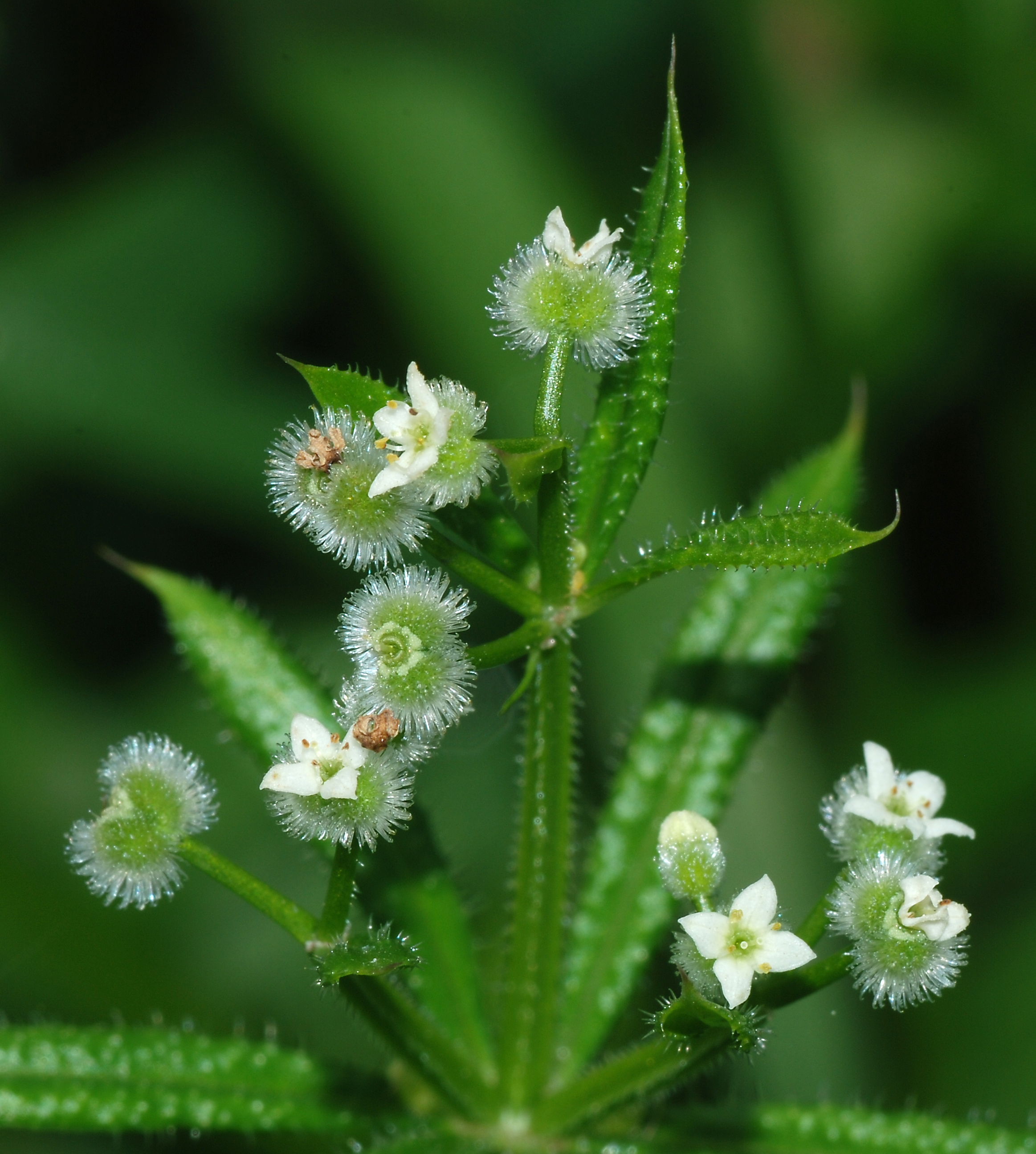 A Galium aparine (Cleavers or Goosegrass).